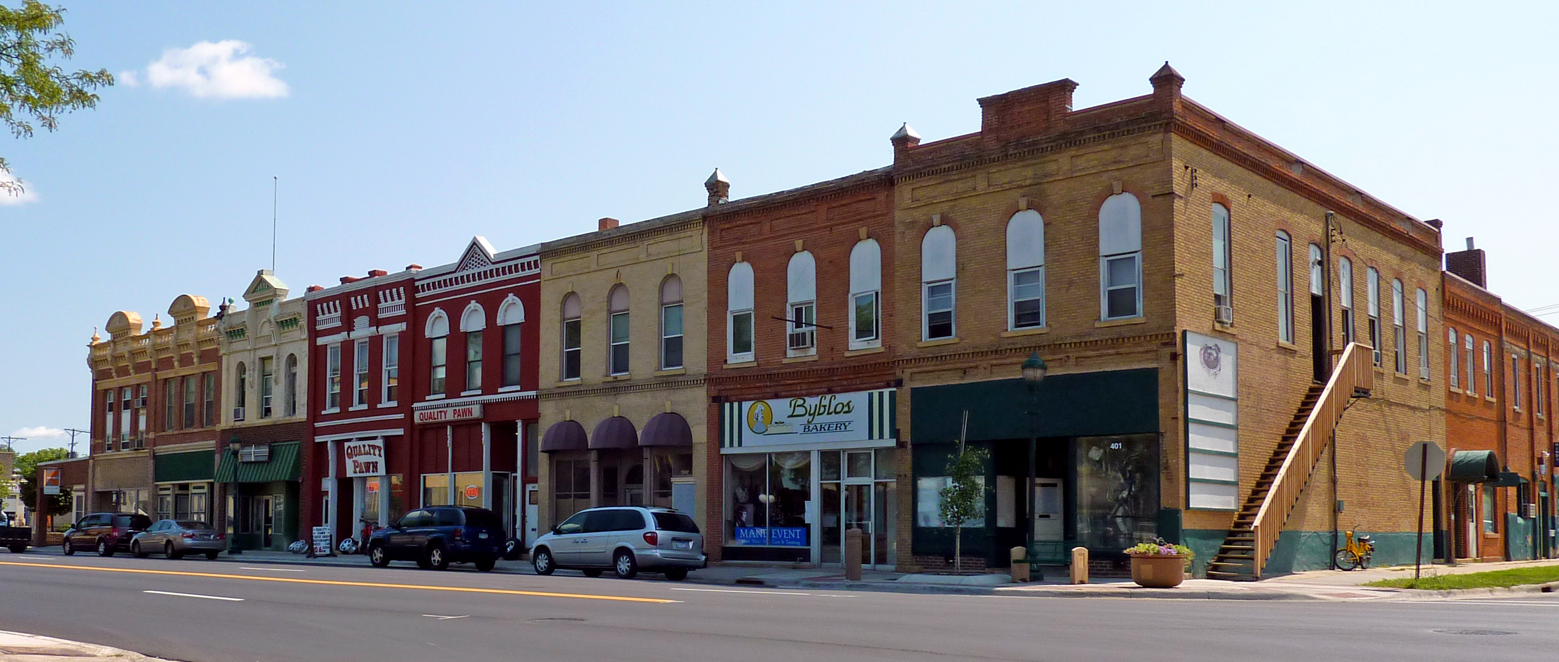 North Riverfront Drive Commercial District, Mankato, Minnesota, USA.